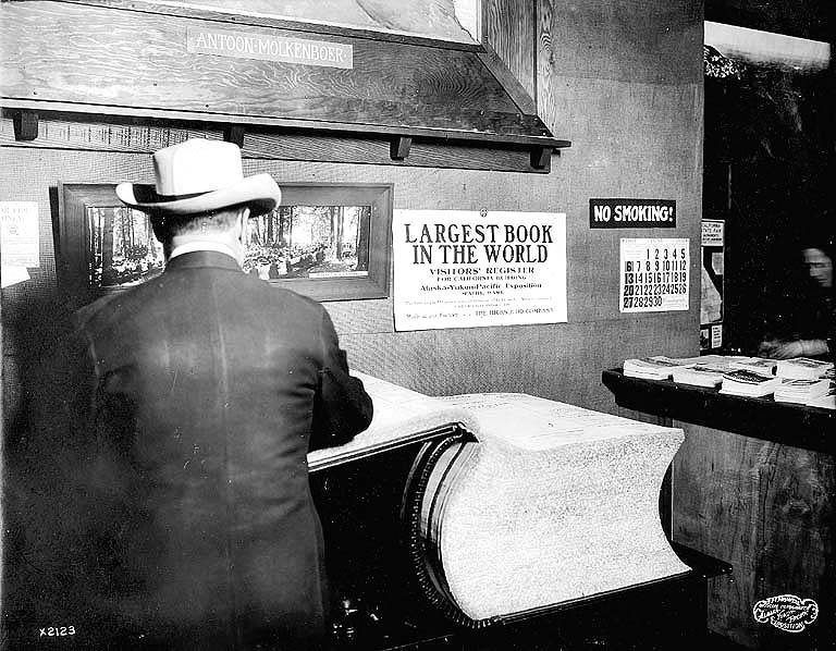 Exhibit of the largest book in the world .Caption on image: x2123PH Coll 727.274 Subjects (LCSH): Books; California Building (Seattle, Wash.); Alaska-Yukon-Pacific Exposition (1909 : Seattle, Wash.); Exhibitions--Washington (State)--Seattle